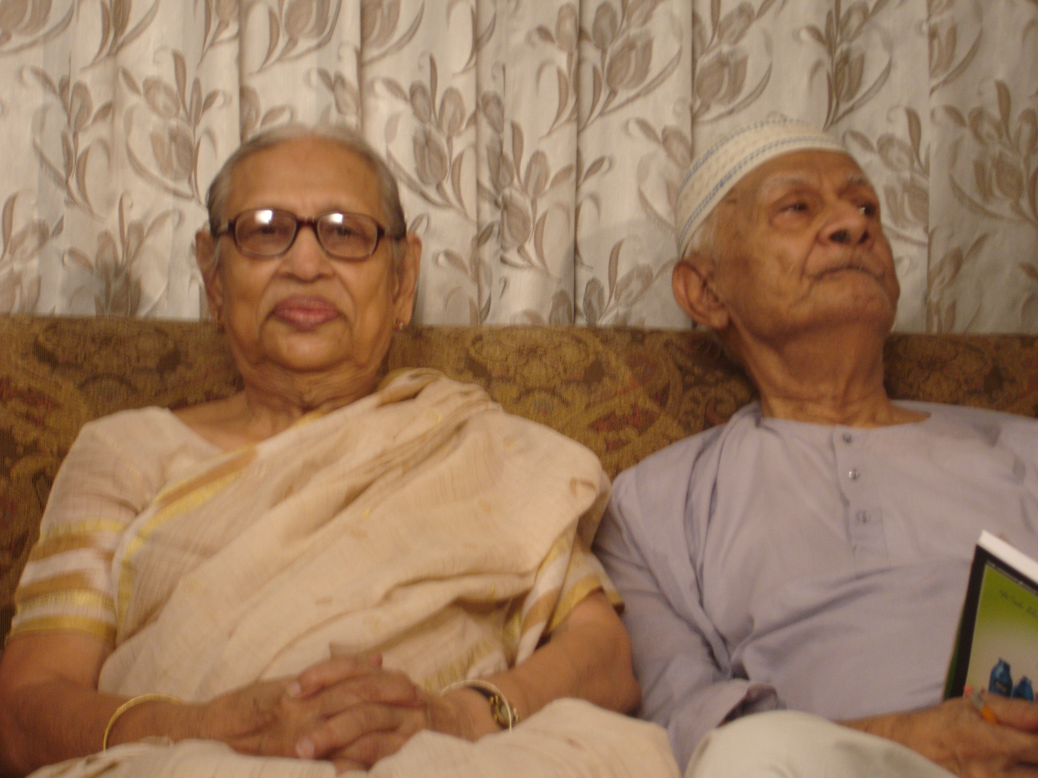 Abu Rushd with his wife